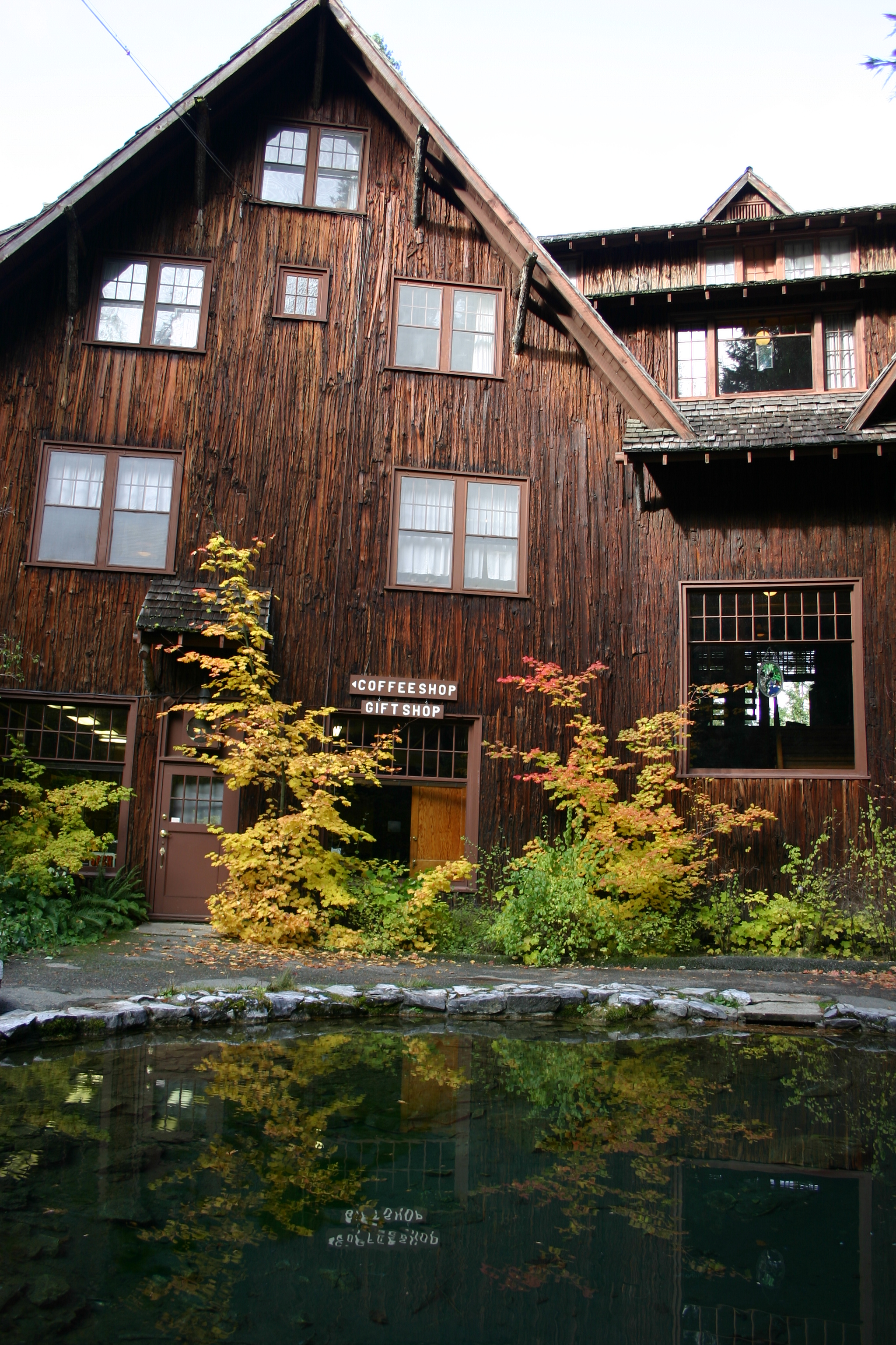 Oregon Caves Lodge in Oregon Caves National Monument